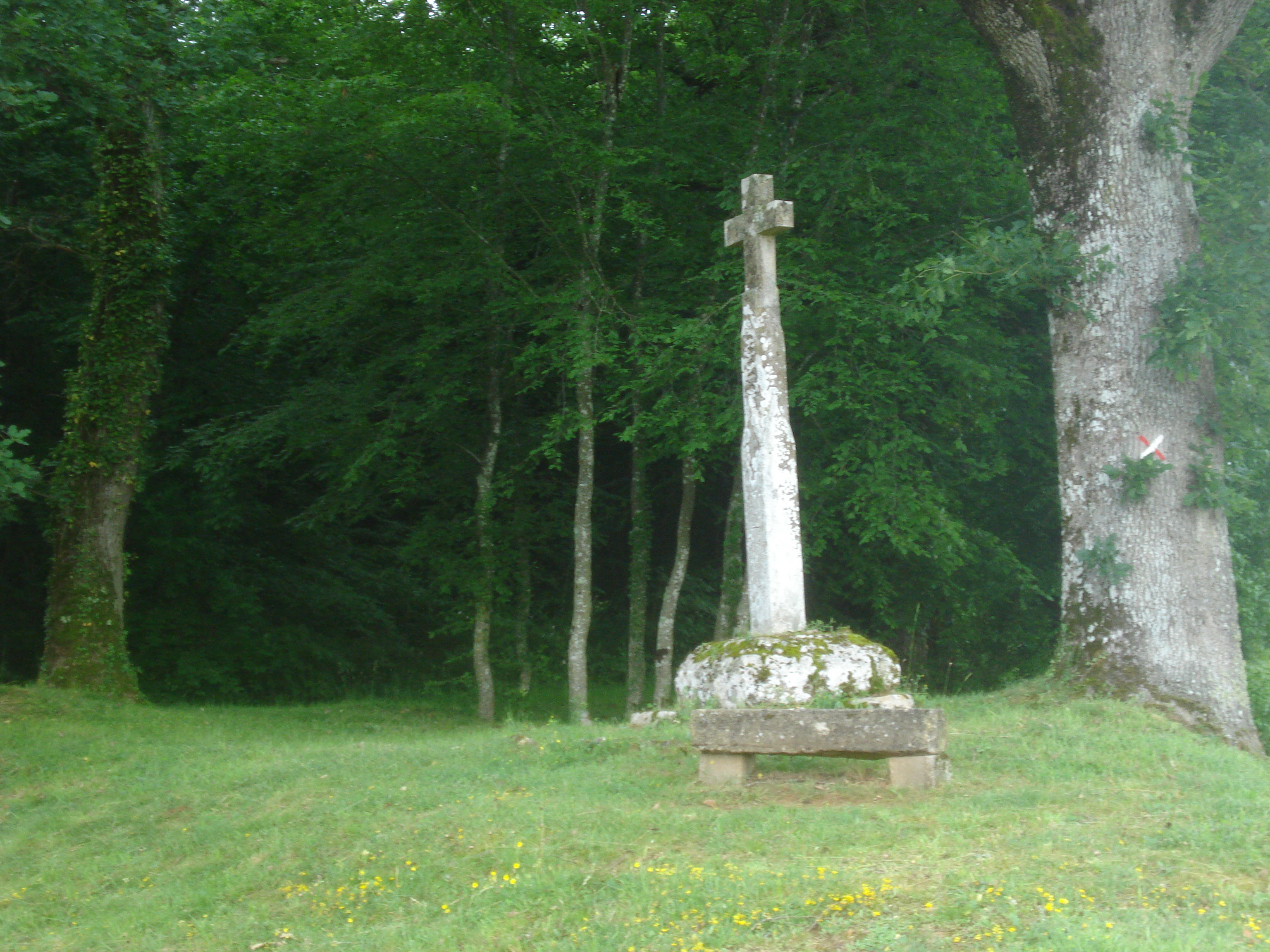 Wayside cross on the Way of St.James at Cervenon, municipality of Saint-Germain-des-Bois, Nièvre, Fr.